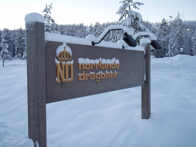 Sign of the Norrland's Dragoons (Norrlands Dragoner).